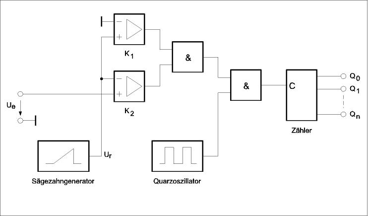 Functional diagram of single-slope DAC